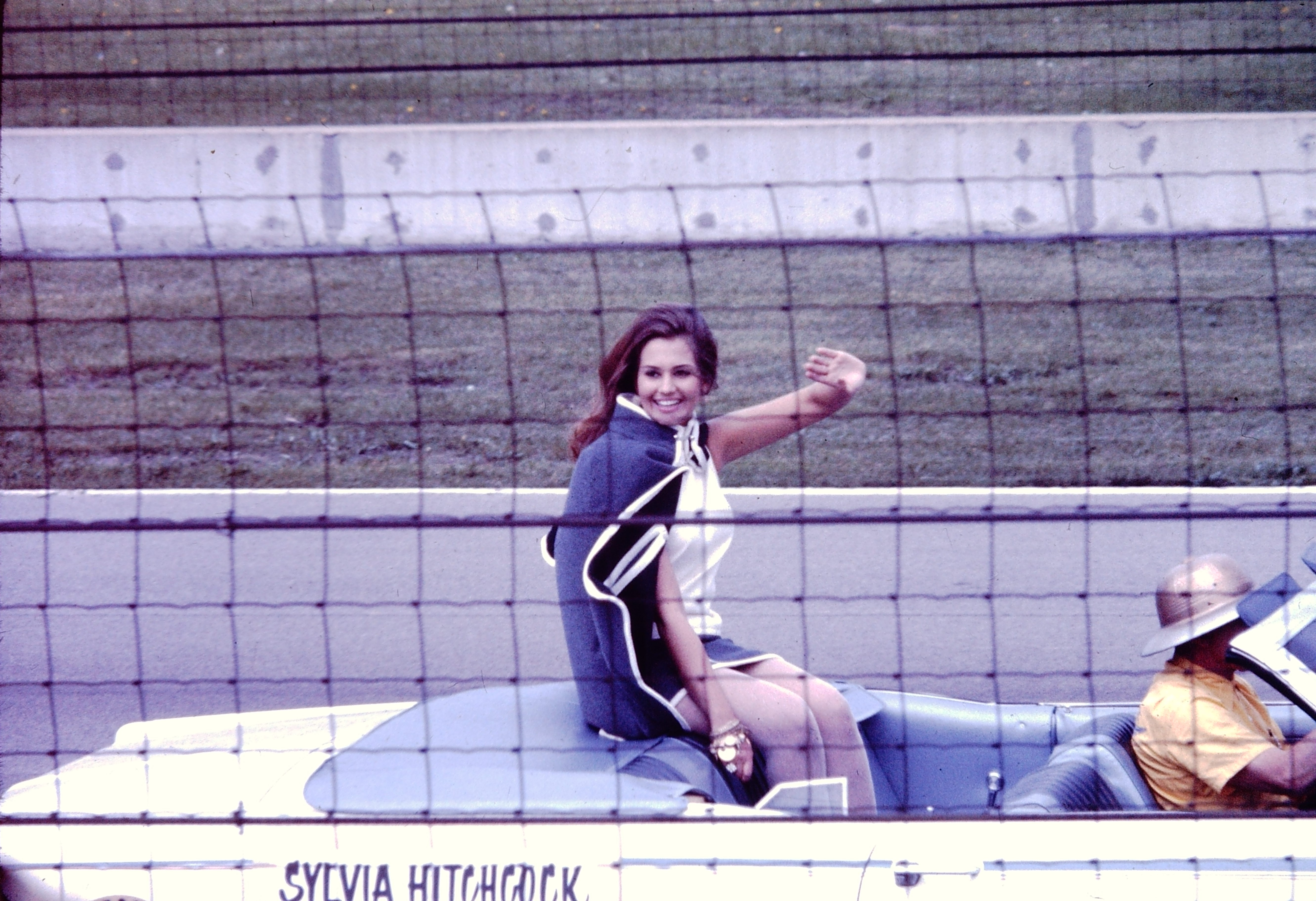 A picture taken from my late great grandfather of Sylvia Hitchcock at the Indianapolis 500 on May 30, 1968.